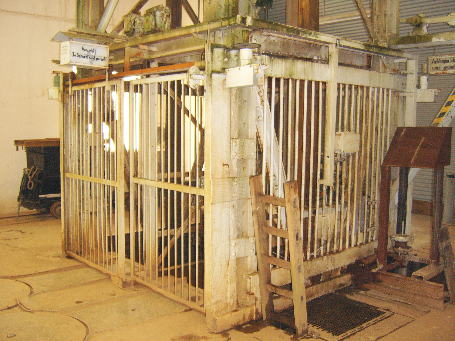 Shaft deck of "Reiche Zeche" mine. Freiberg, Saxony, Germany.